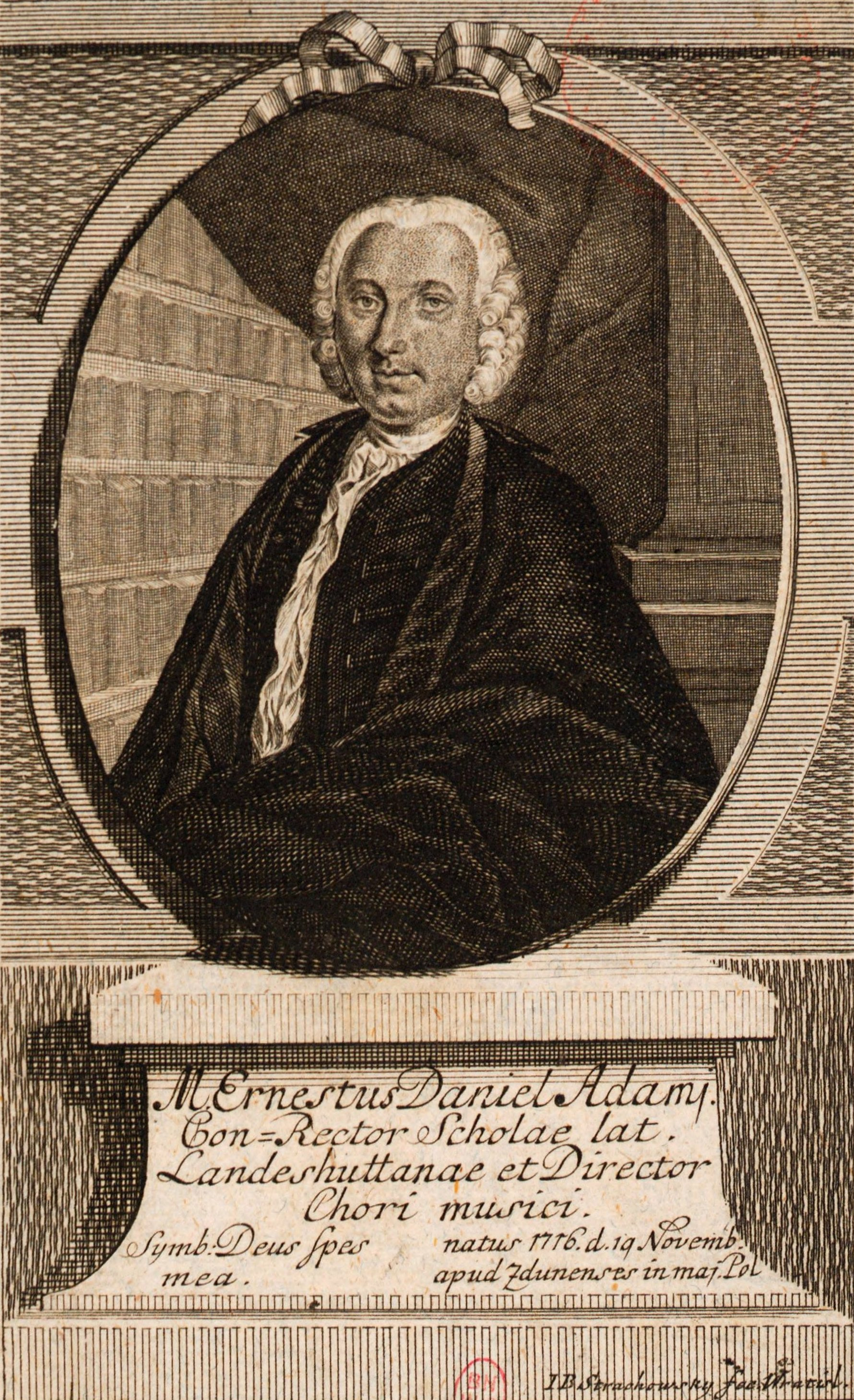 Portrait of German musician and pedagogue Ernest Daniel Adami